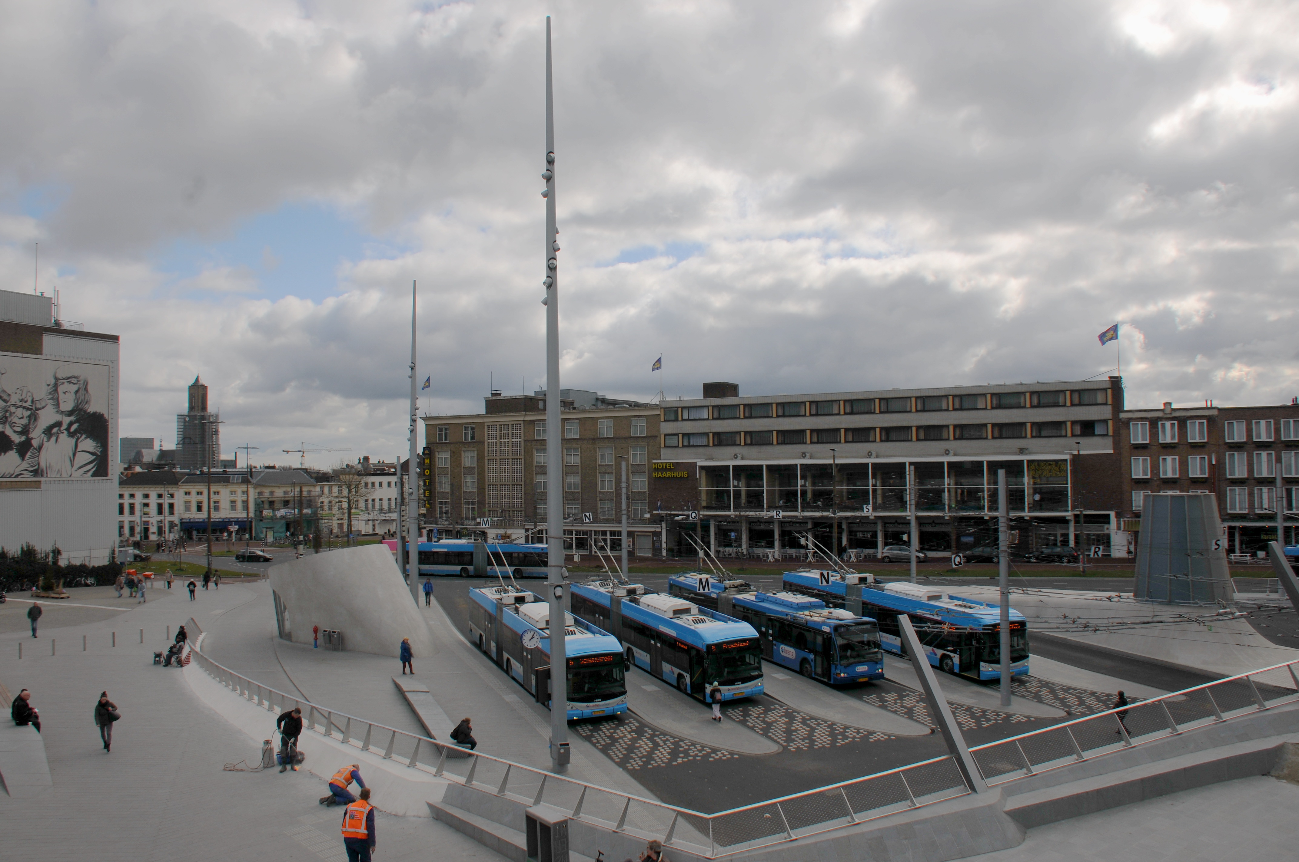 The new busstation at Arnhem Central Station at 23 March 2016